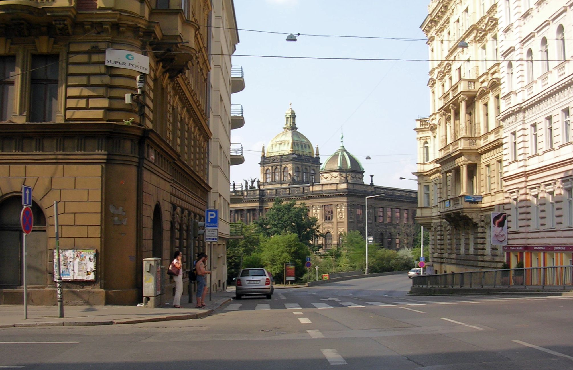 New Town and Vinohrady, Prague, the Czech Republic. Legerova Street and the National Museum. - Google Maps - Google Earth